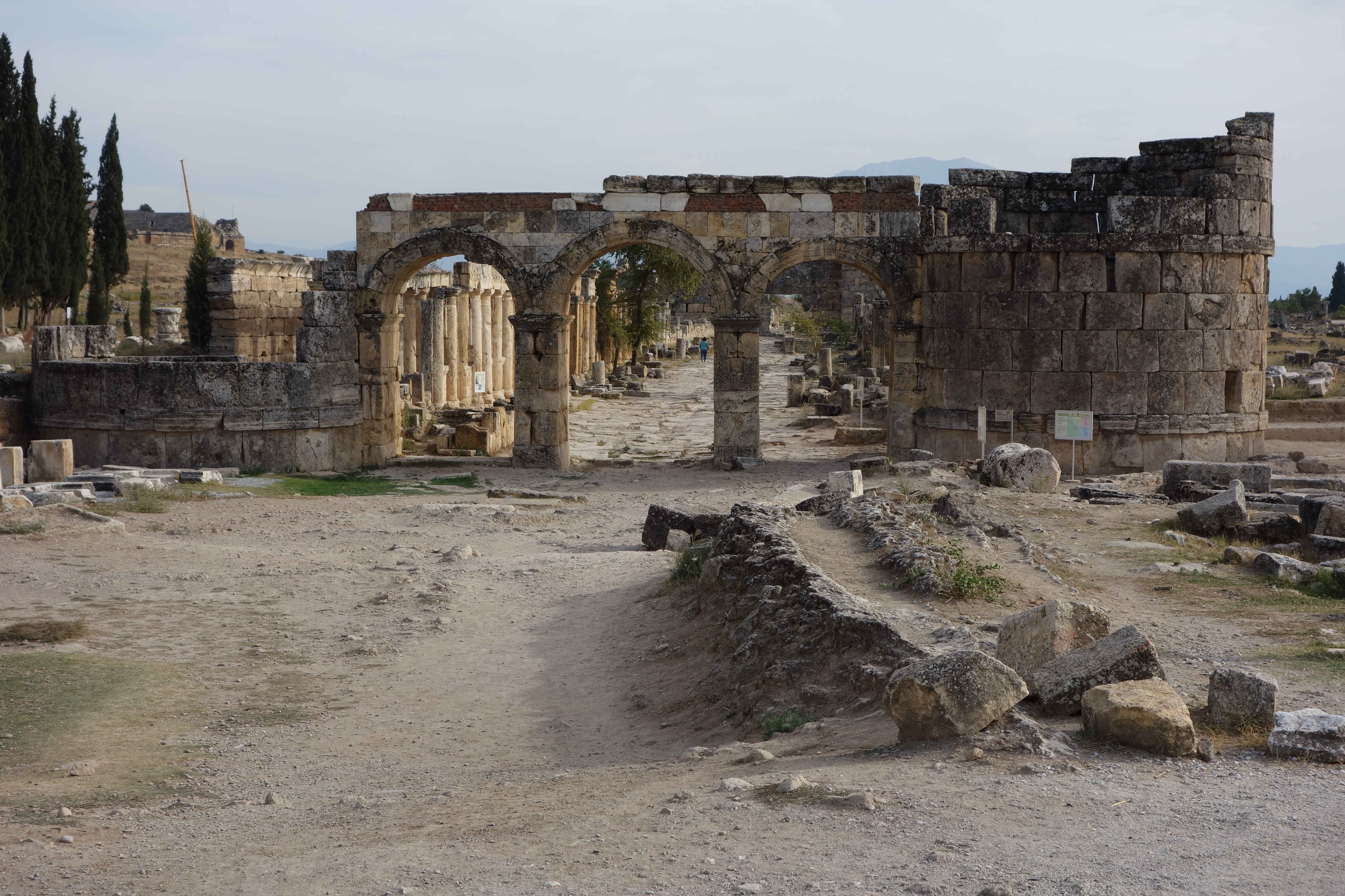 The Domitian gate in the ancient Roman/Greek city of Hierapolis, near Pamukkale